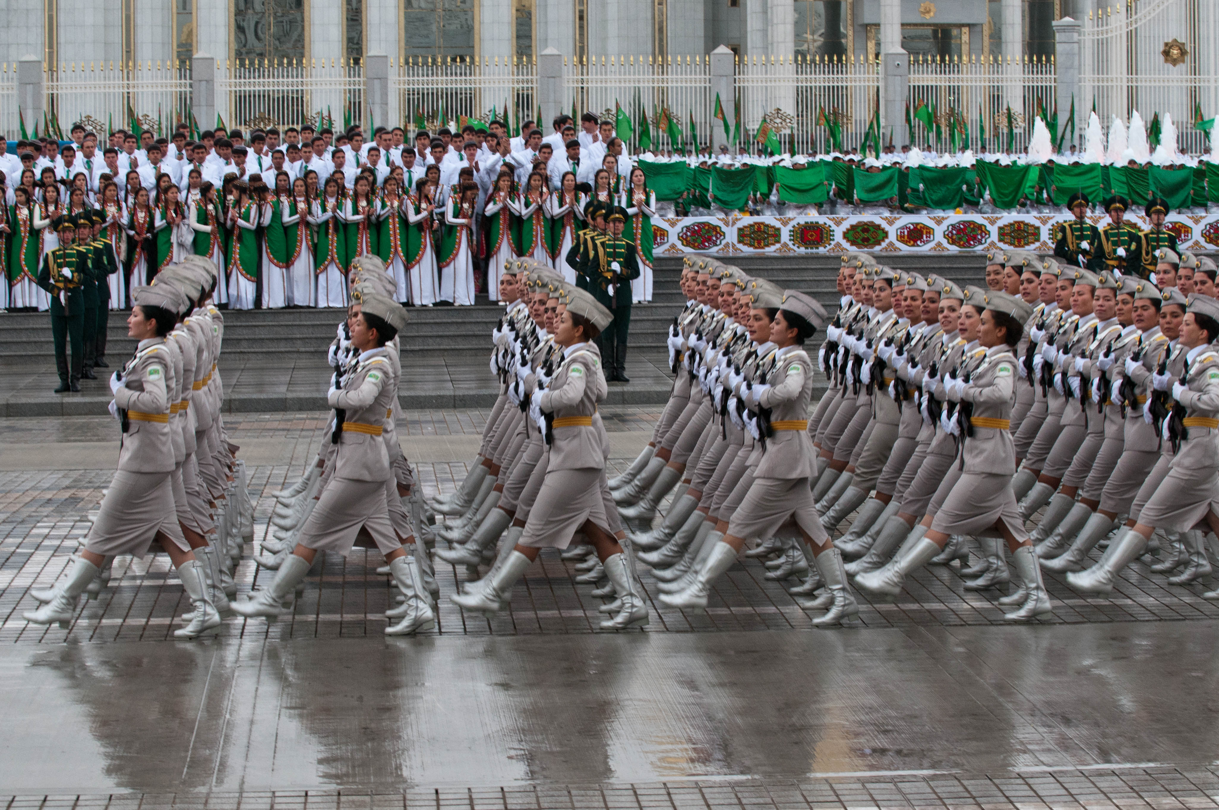 Celebrating the 20th year of independence in Turkmenistan